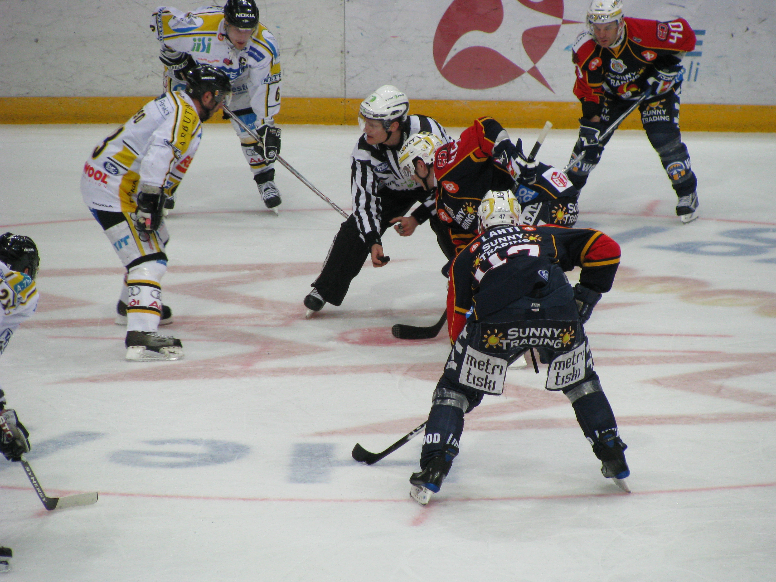 Kärpät vs. Jokerit